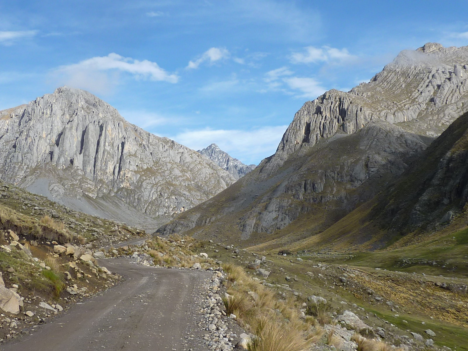 1000 meters west of the cave Sima Pumococha in Laraos district, Peru